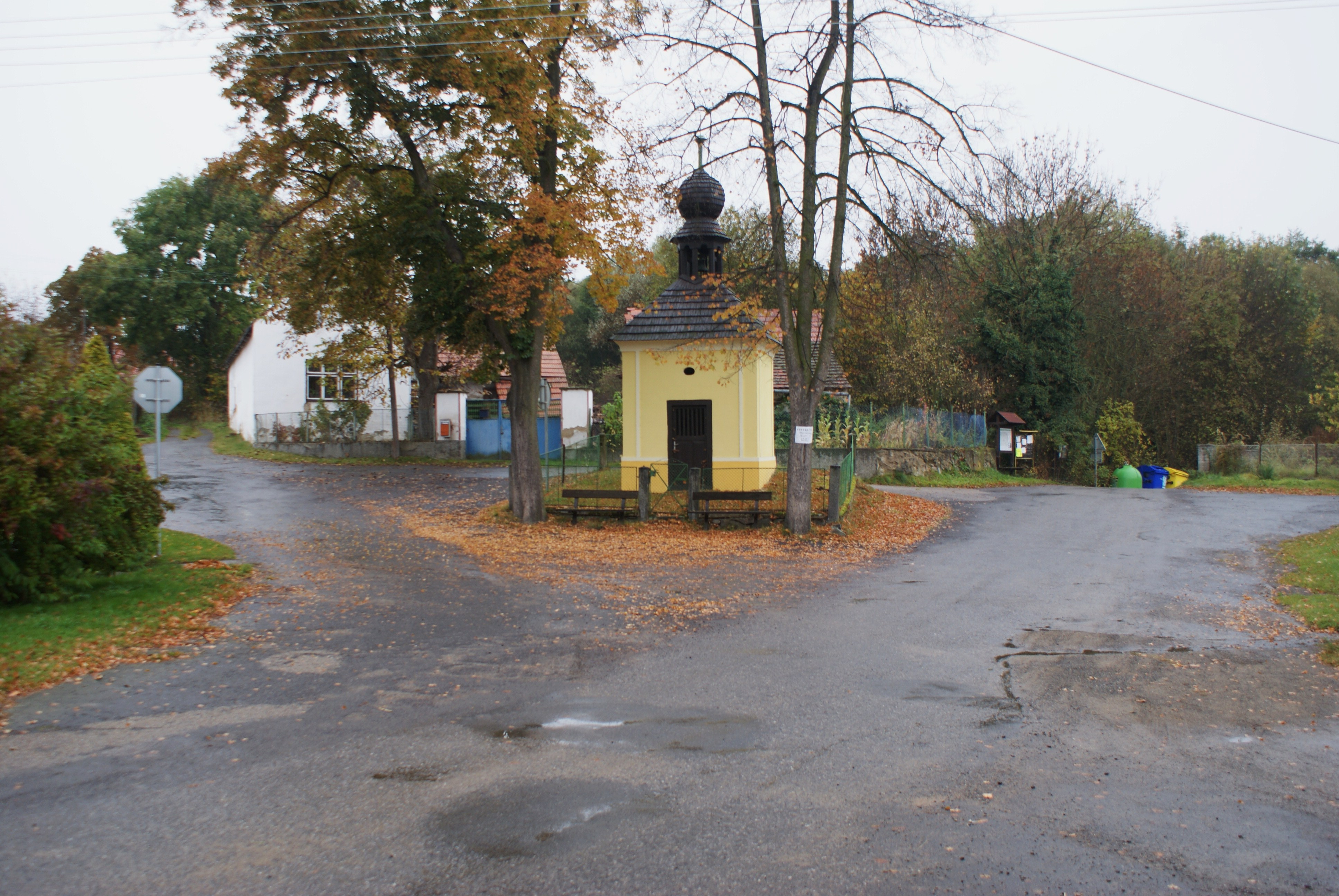 This photograph was taken within the scope of the Czech 'Photo Workshops' grant.